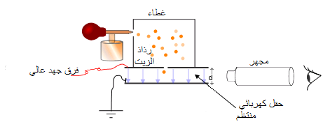 Simplified scheme of Millikan’s oil-drop experiment